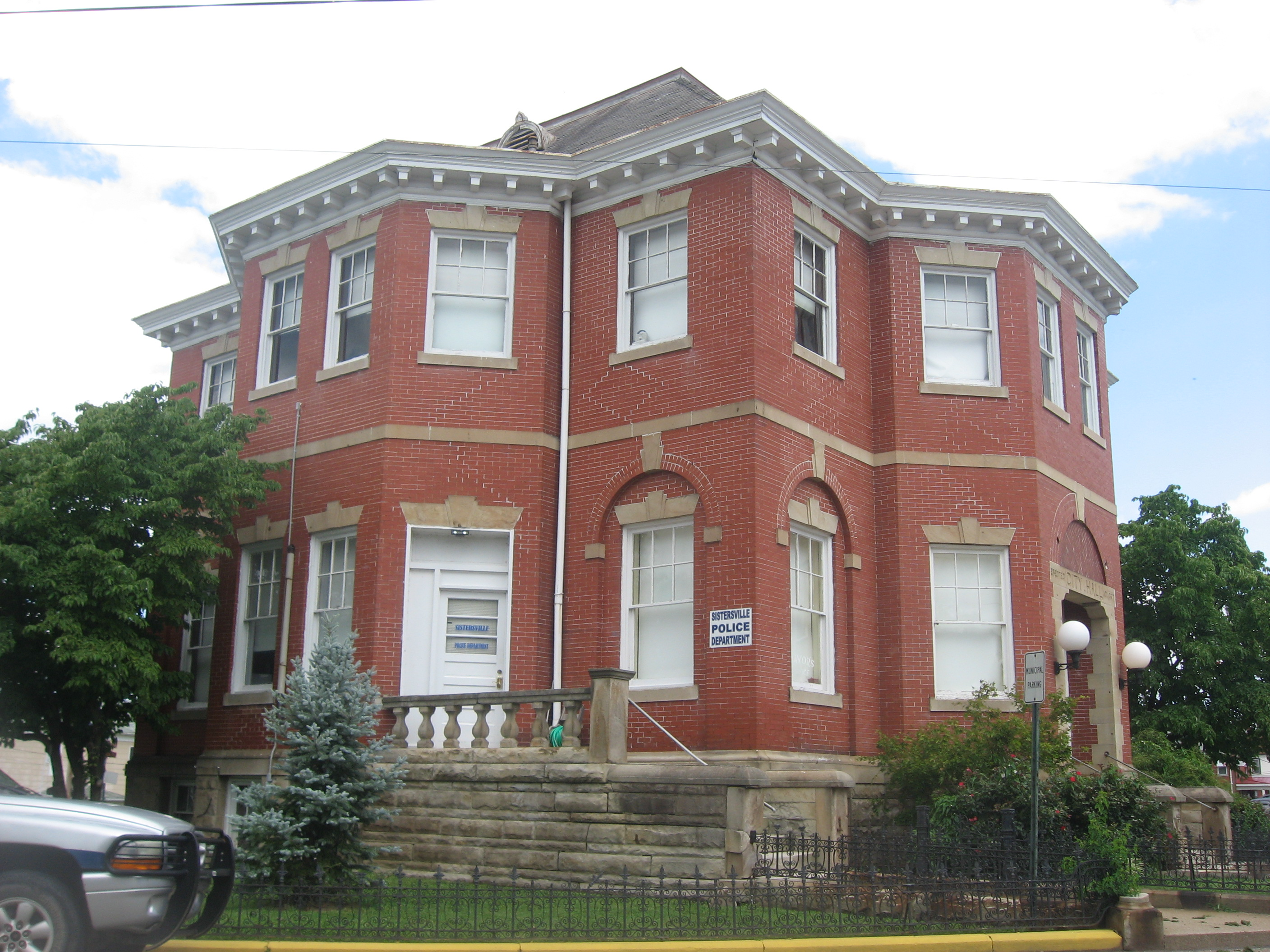 View from the south of the Sistersville City Hall, located inside the roundabout at the intersection of Main and Diamond Streets in Sistersville, West Virginia, United States. Built in 1897, it is listed on the National Register of Historic Places, and it is part of a Register-listed historic district, the Sistersville Historic District.